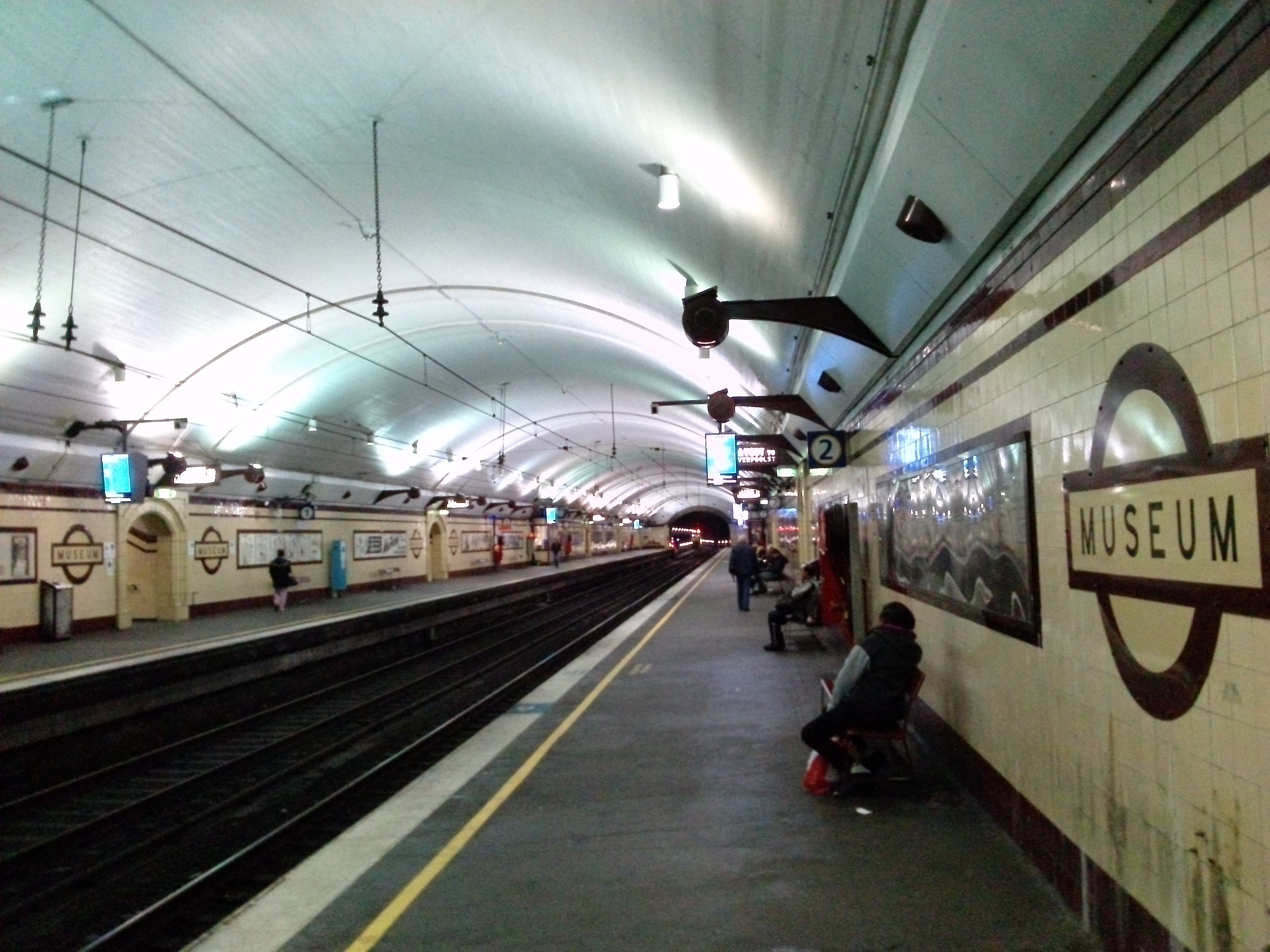 The inner city station of Museum in Sydney, New South Wales, on the City Circle line.